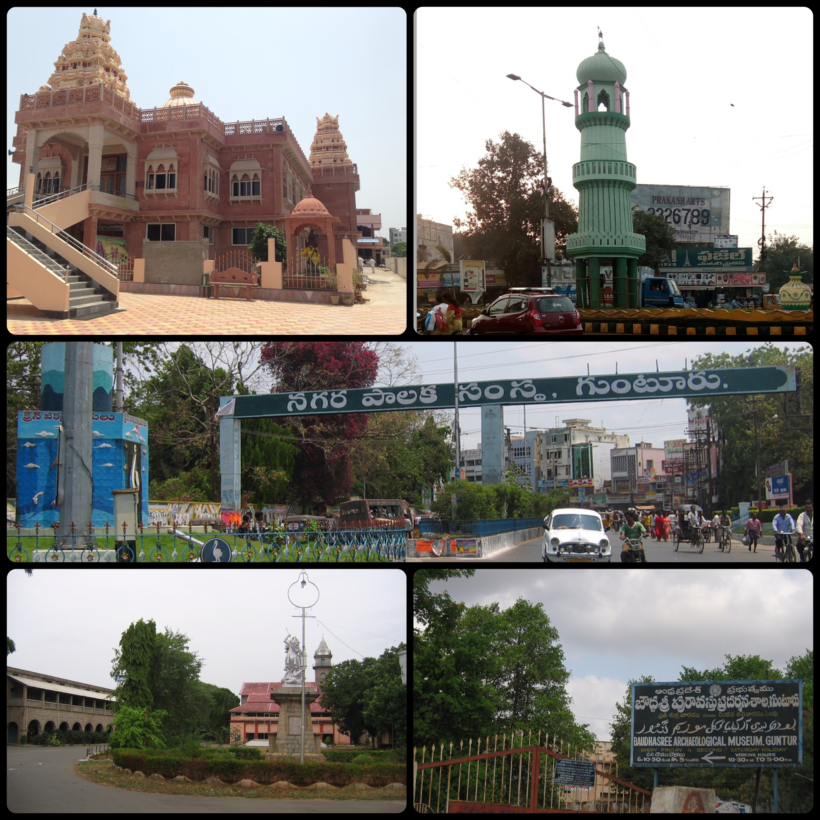 A Montage pic for Guntur city